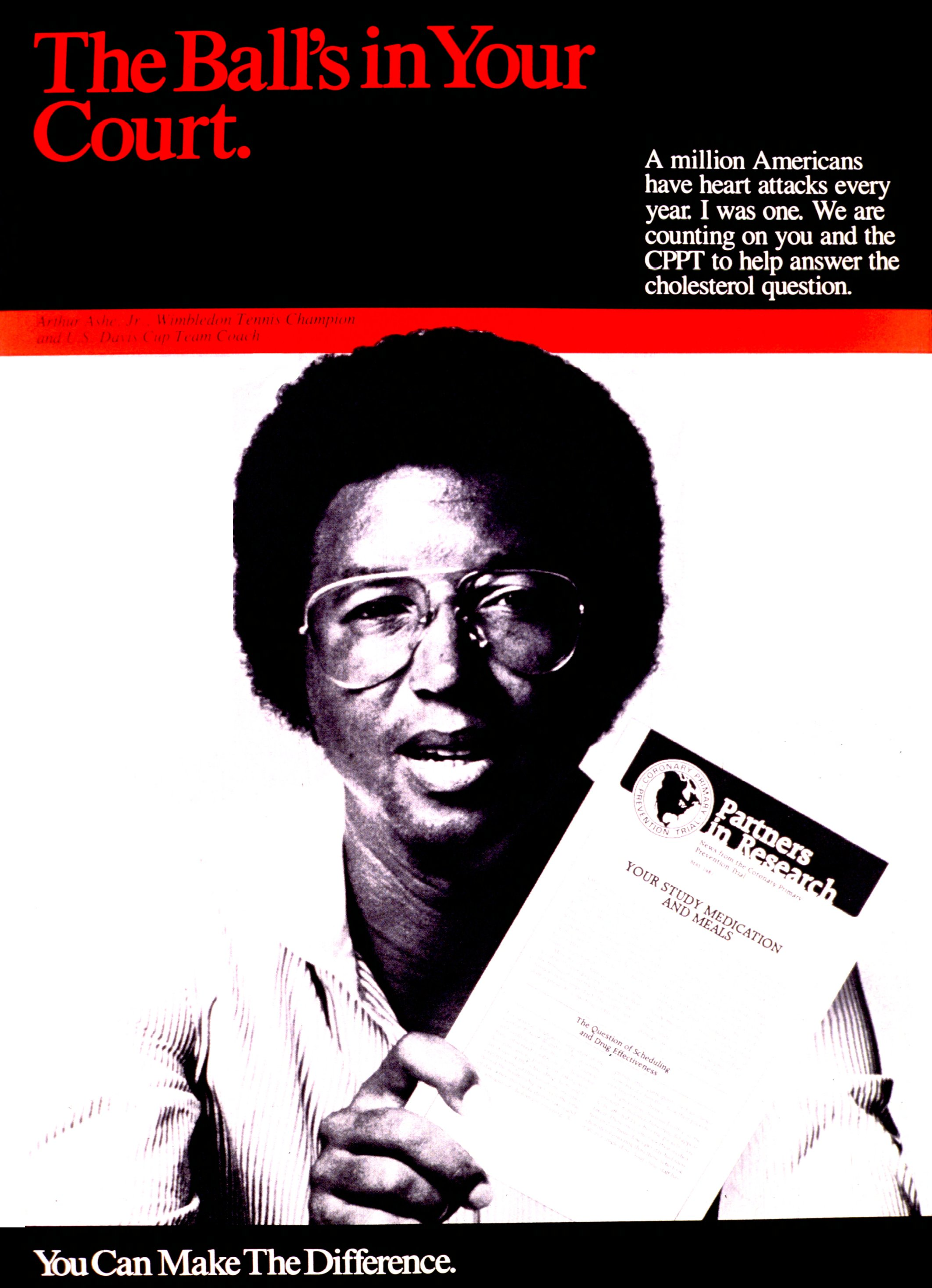 Collection: Images from the History of Medicine (NLM) Title: The ball's in your court Contributor: Ashe, Arthur. Contributor (Organization): National Heart, Lung, and Blood Institute. Subject (Genre): Posters Subject (MeSH Term): Coronary Disease prevention & control Subject (MeSH Term): Anticholesteremic Agents therapeutic use Subject (MeSH Term): Research Subjects Subject (MeSH Term): Famous Persons Subject (MeSH Term): African Americans Publication Information: [Bethesda, Md. : National Heart, Lung, and Blood Institute, 197-?] Publication Country: United States Copyright Statement: The National Library of Medicine believes this item to be in the public domain. Order No.: C00666 Physical Description: 1 photomechanical print (poster) : col. ; 86 x 61 cm. Image Description: Black and white picture of Arthur Ashe, Jr. from the chest up, holding a CPPT publication in his hand. Title and band across the poster identifying Arthur Ashe as a Wimbeldon Tennis champion and U.S. Davis Cup team coach are in red. Subject (Organization): Coronary Primary Prevention Trial. Note (General): Picture caption: A million Americans have heart attacks every year. I was one. We are counting on you and the CPPT to help answer the cholesterol question. You can make the difference. Language: eng Restrictions on Access: HMD provides access to digital images in lieu of originals when electronic copies exist. Access to originals may require advance notice. Please see HMD Reference Librarian for more information. URL: Call Number: PP02833 map Record UI: 101454031